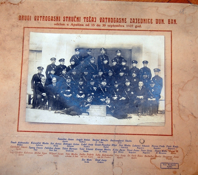 Group photography, framed in a wooden decorative frame, walnut colors. The photograph is glued to the cardboard, which is printed above: "The second fire-fighting professional course of the Danube Banovina Fire Department was held in Apatin from 15th to 30th September 1937." Below the photos, the names of the participants are printed in blue in the order in the photo .